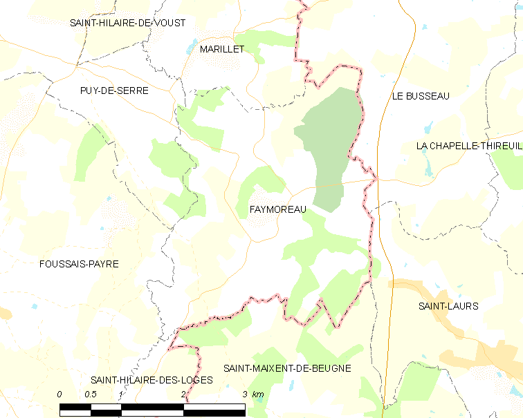 Map of French municipality Faymoreau